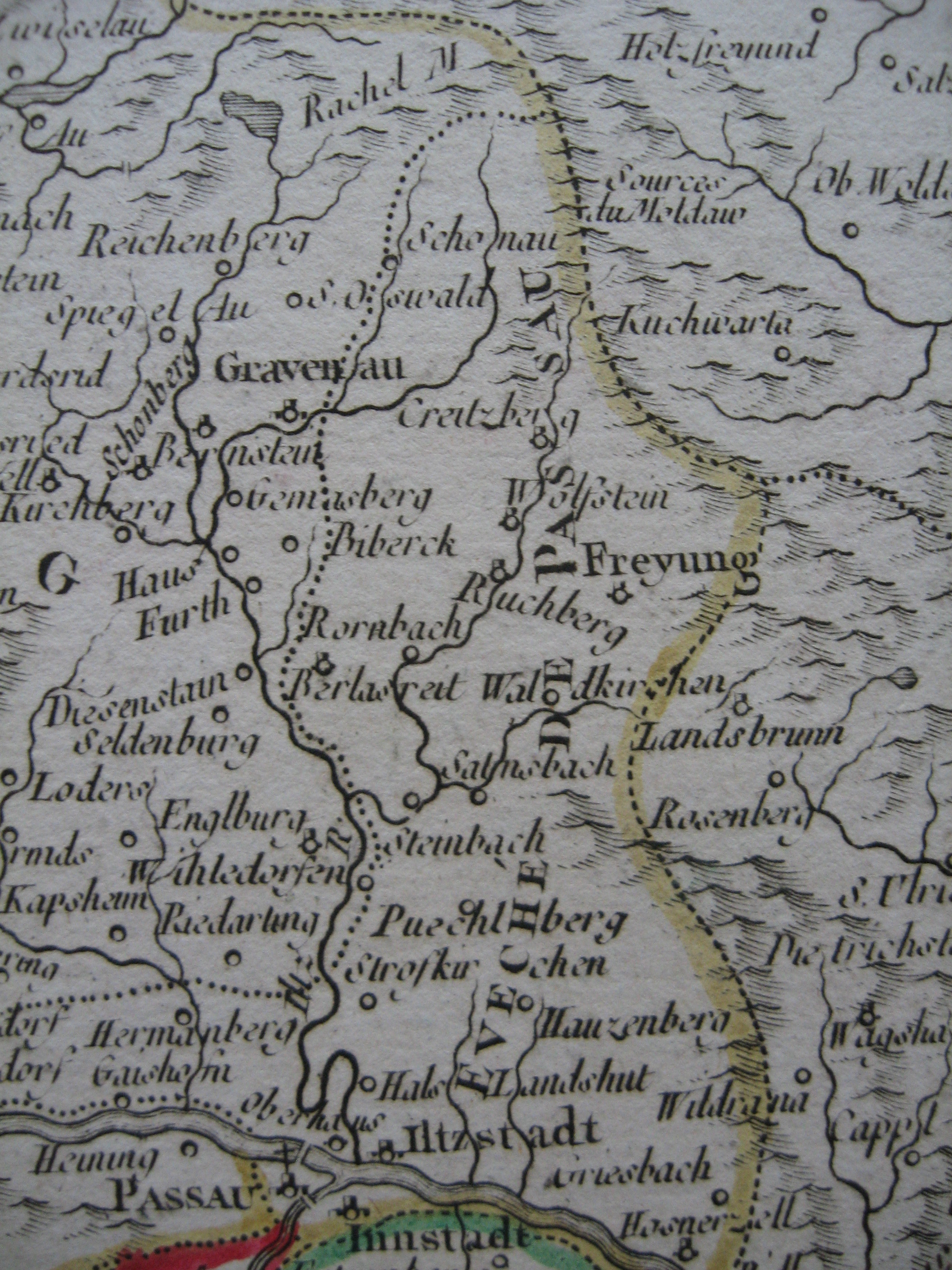 The Prince-Bishopric of Passau (Evêché de Passau on the map) was an ecclesiastical principality that existed for centuries until 1803 when the prince-bishop lost its temporal powers. It should not be confused with the Diocese of Passau, which was considerably larger and extended into Austria. Cropped from a map of the Circle of Bavaria published by Robert de Vaugondy circa 1760.